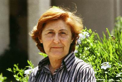 Photograph